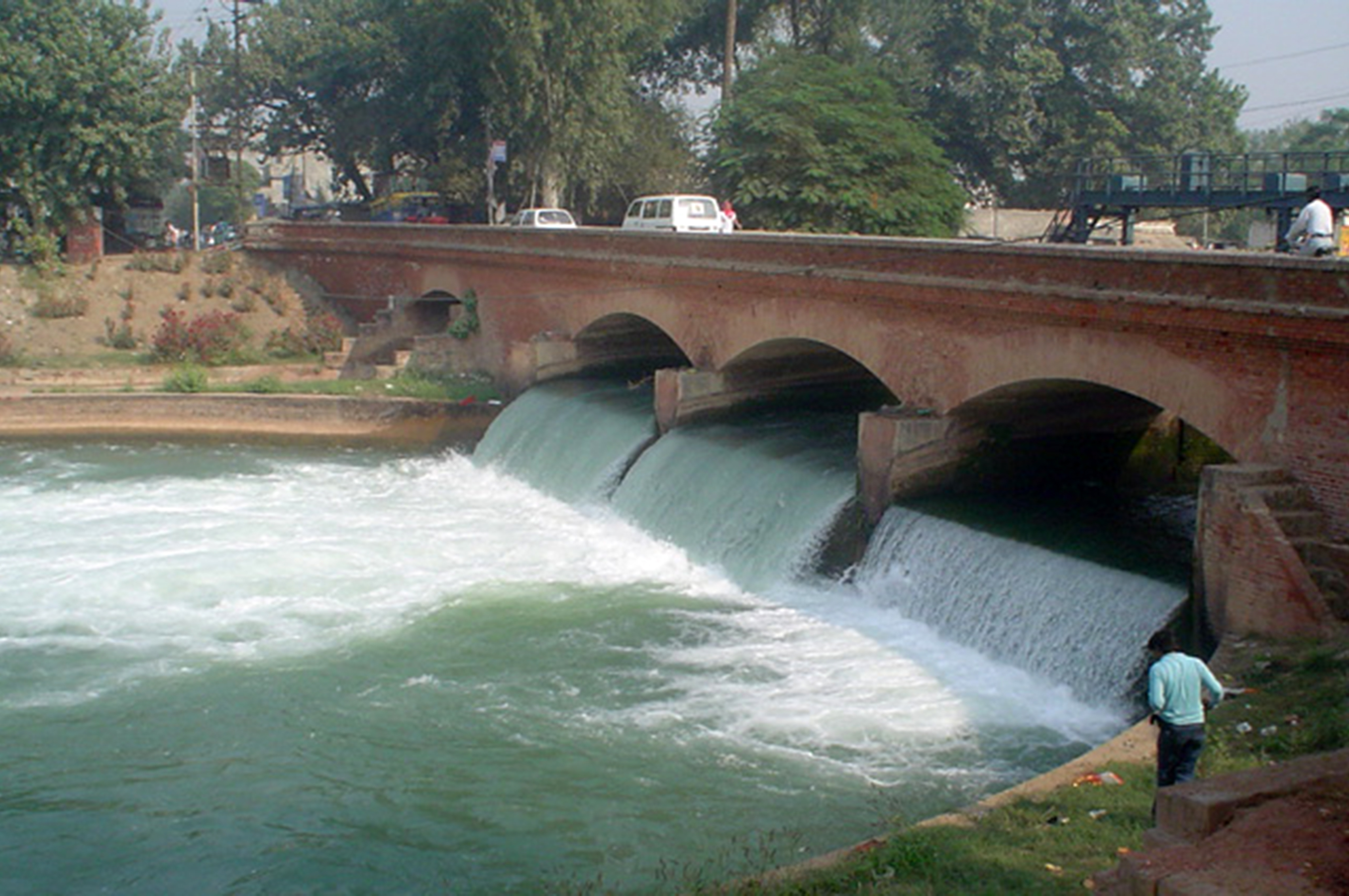 one of the bridges (now dismantled) over the canal at village Sudhar in Ludhiana district of Punjab in India.